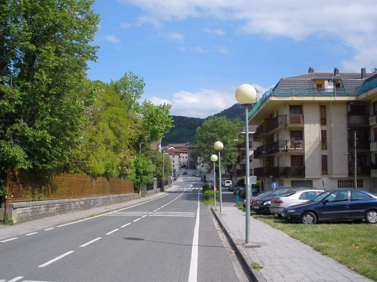 Arceniega, Álava